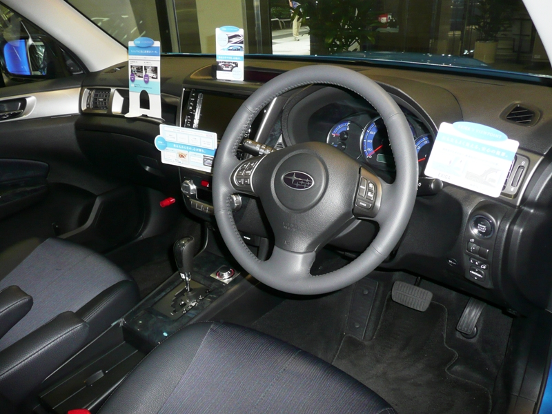 Subaru Exiga.